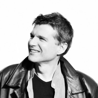 Studio portrait